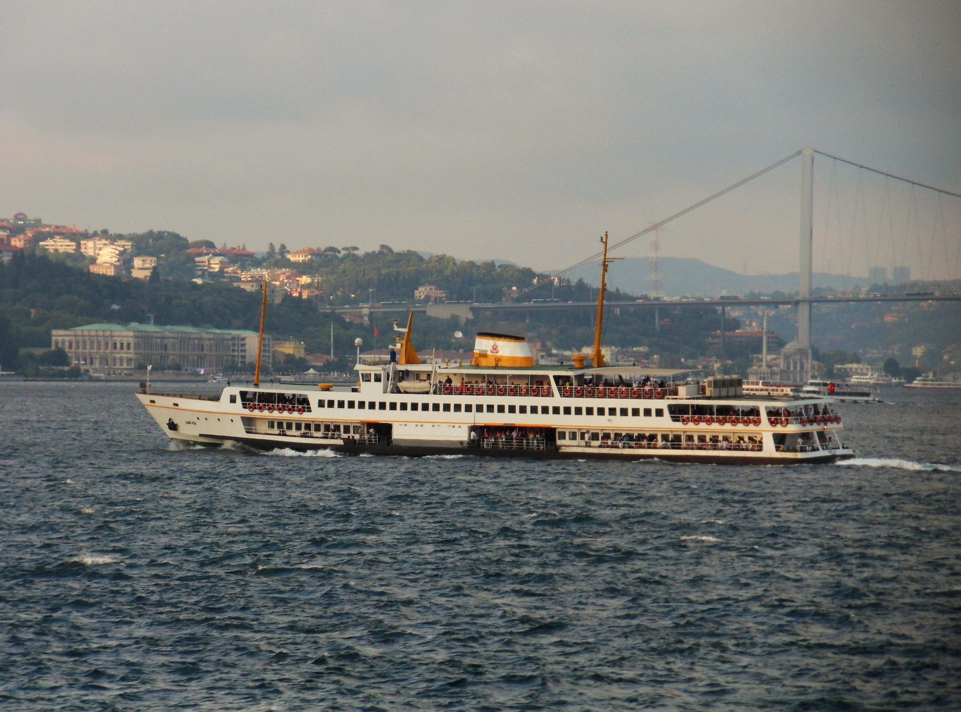 Emin Kul goes to Karaköy